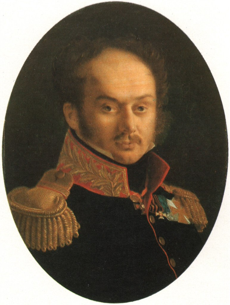 Orlov Mikhail Fedorovich